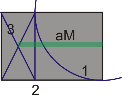 Drawing of the arithmetic mean (Francesco di Giorgio)